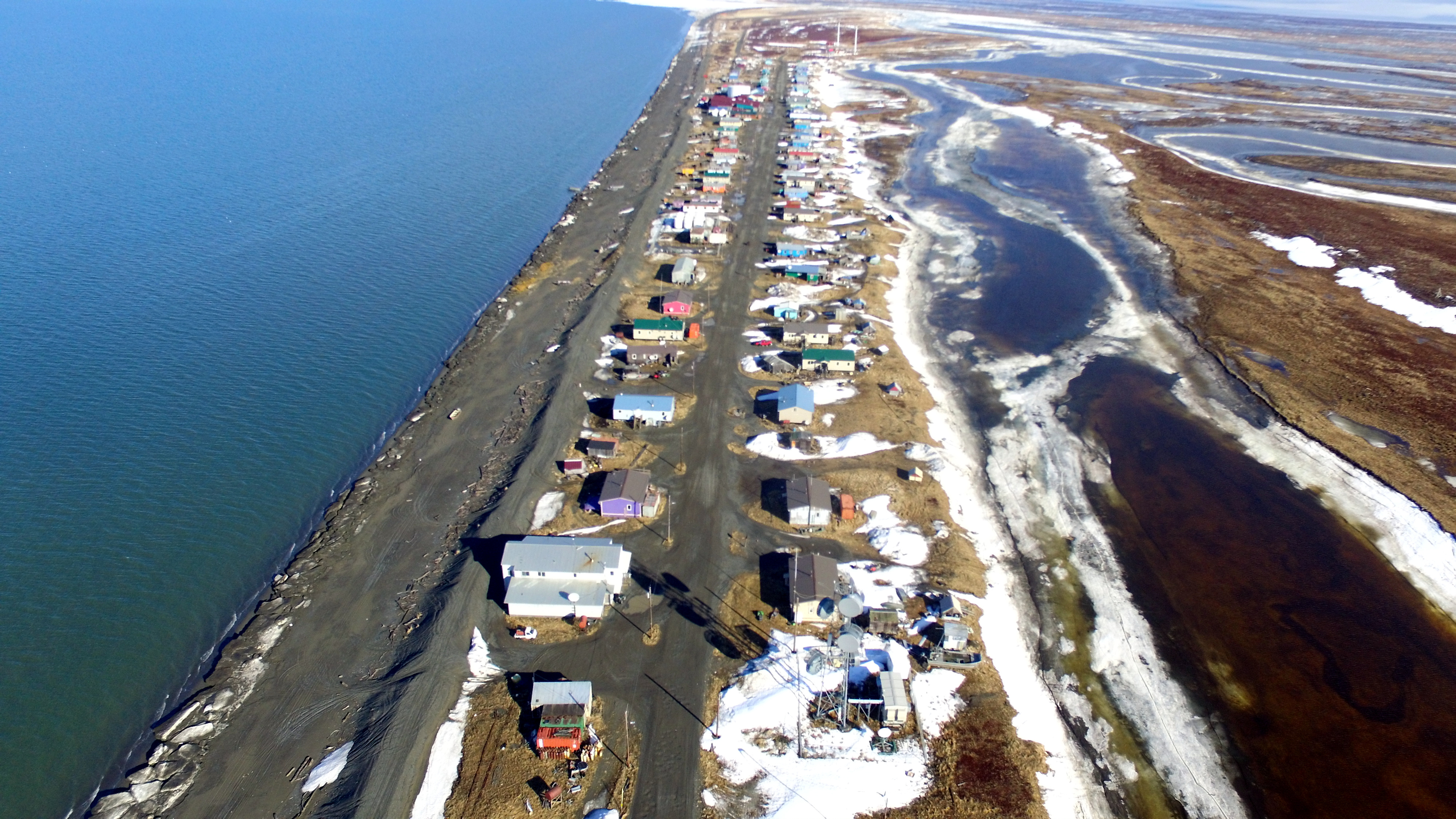 Shaktoolik, Alaska is one of several remote isolated Native Villages located on Norton Sound in Western Alaska. Shaktoolik is severely threatened by climate change.